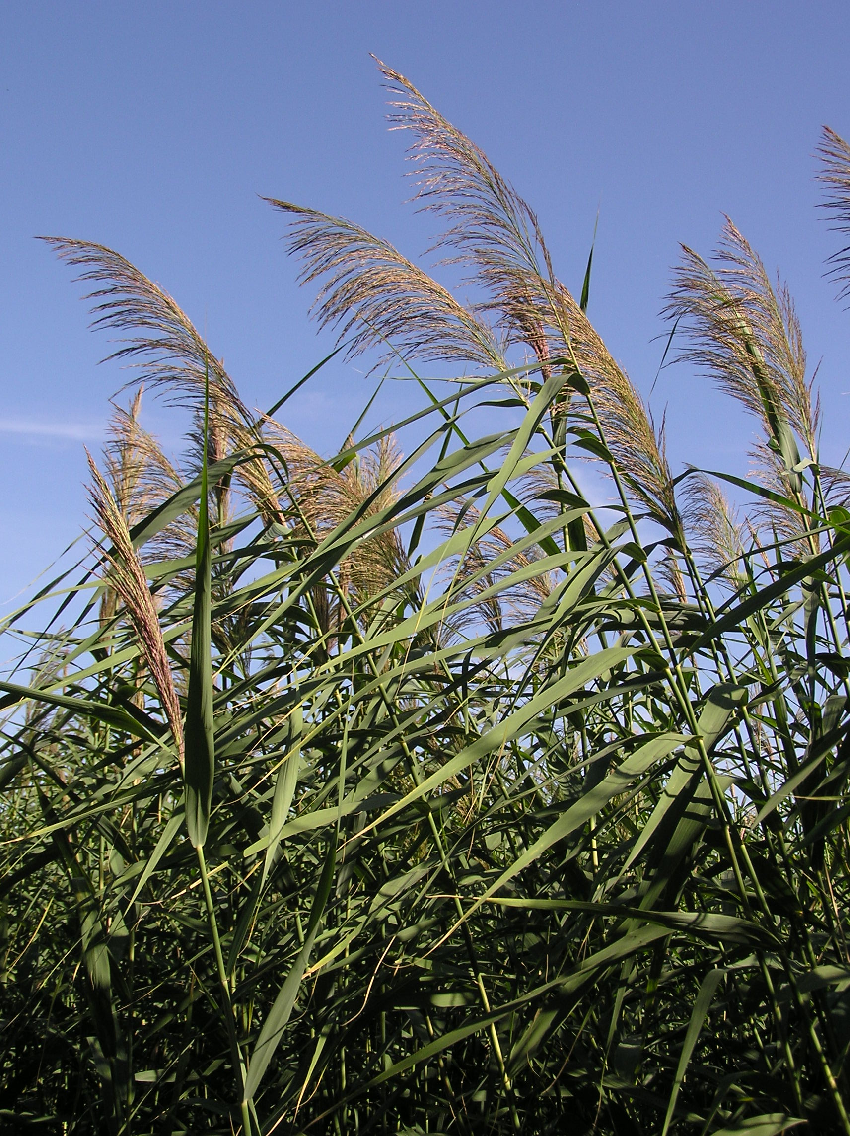 Common reed (Phragmites australis (Cav.) Trin. ex Steud.); inflorescences. Habitat: а bank of Volgograd Reservoir (Volga). Vicinity of Saratov city, Russia.